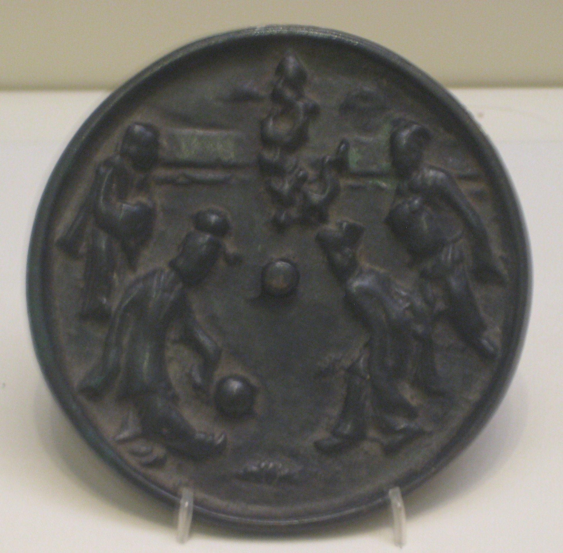 Bronze mirror depicting people playing kickball (cuju 蹴鞠). Song Dynasty (960-1279).